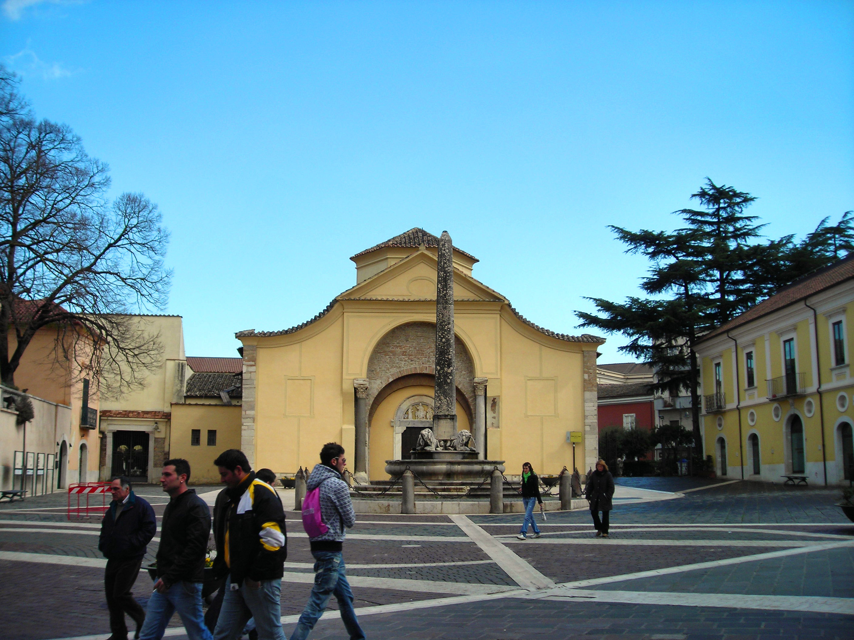 The façade of the Church of Santa Sofia, Benevento, Italy